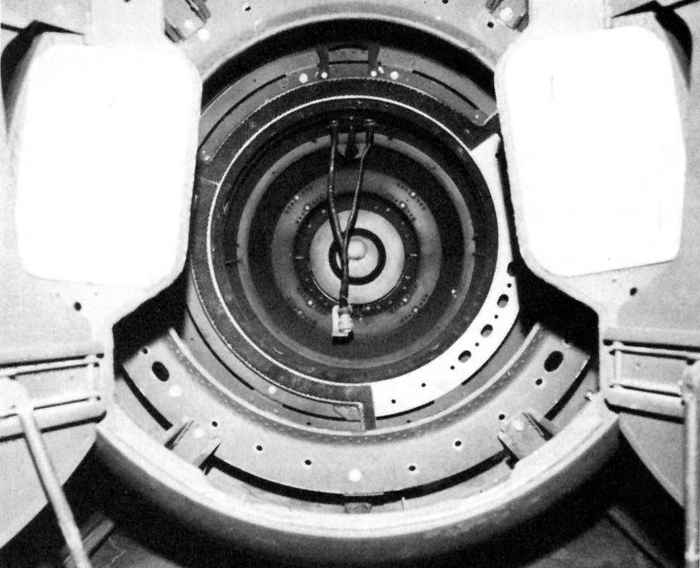 Nose cavity open and visible on US Mark 5 nuclear bomb. This weapon used in-flight-insertion of the fissionable core, requiring that explosive components be removable on one side to insert the core.